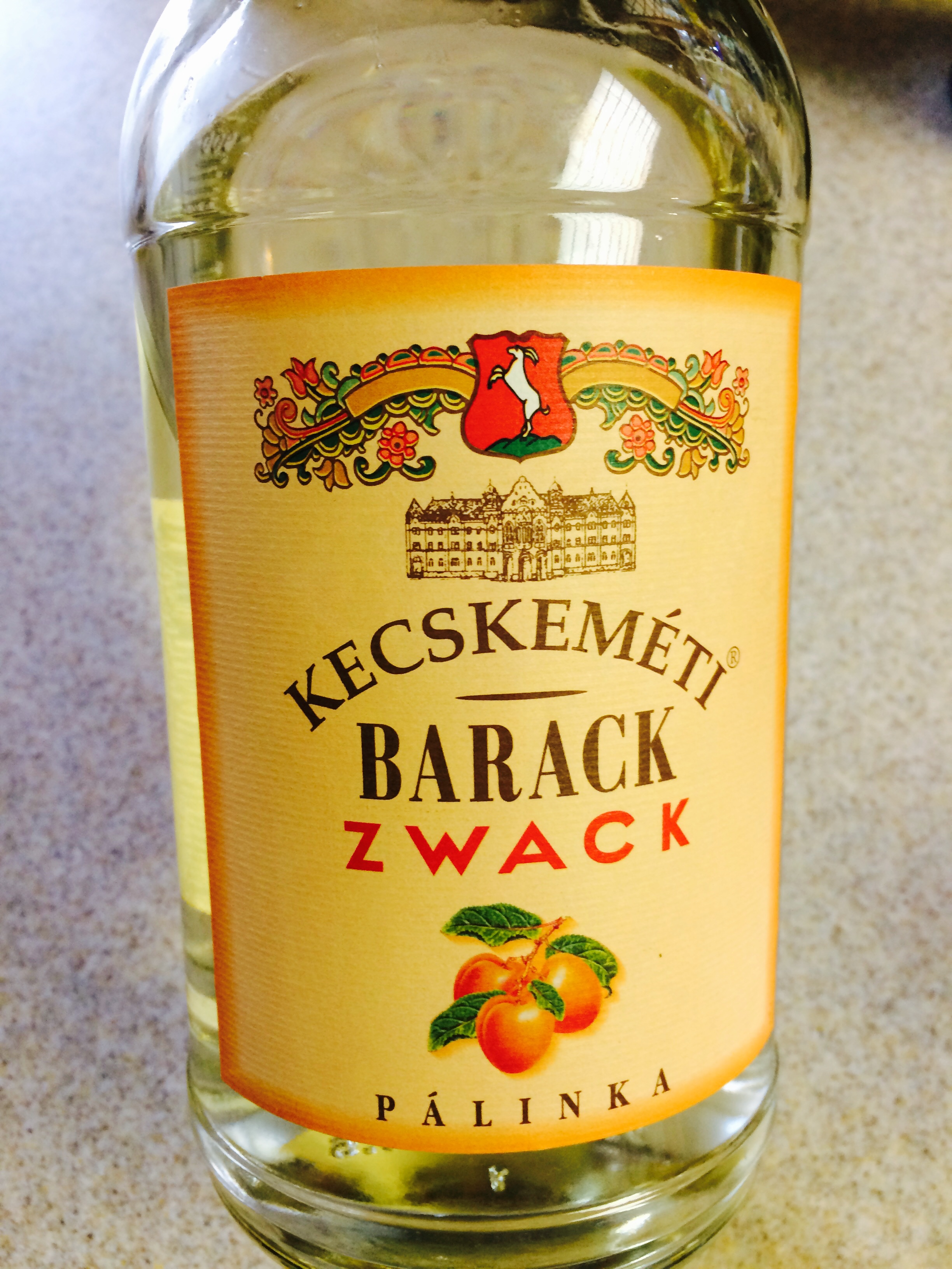 Kecskeméti barack pálinkás üveg